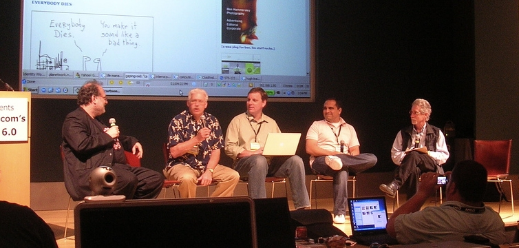 A Gillmor Gang podcast at Gnomedex 6.0. From left to right are Steve Gillmor, Doug Kaye, Michael Arrington, Ryan Montoya and Dan Farber